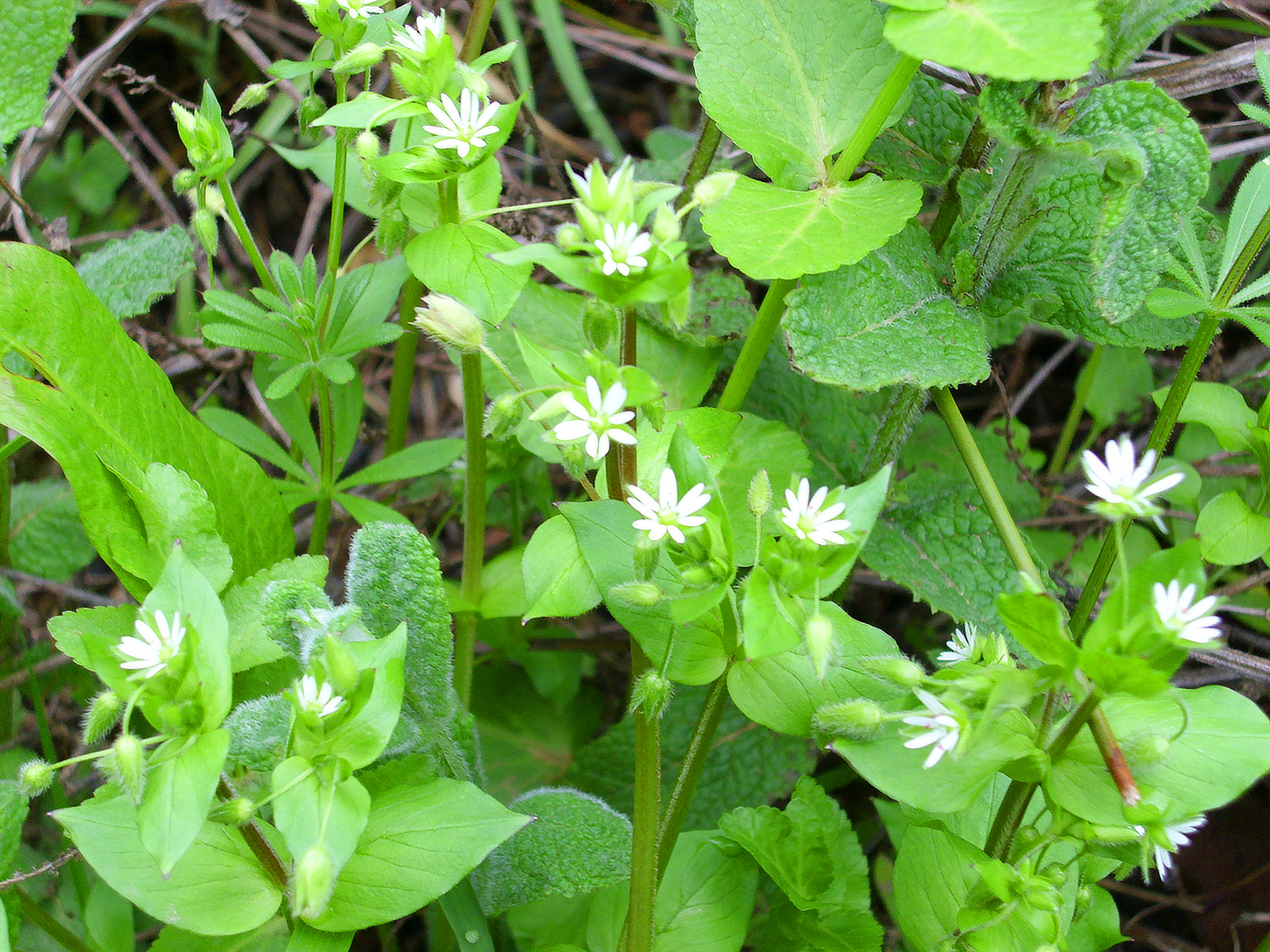 Cerastium brachypetalum flowers, Sierra Madrona, Spain